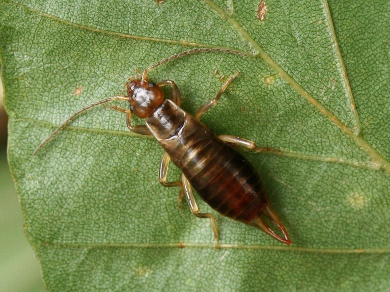 Chelidurella guentheri female, location: The Netherlands - Eerde